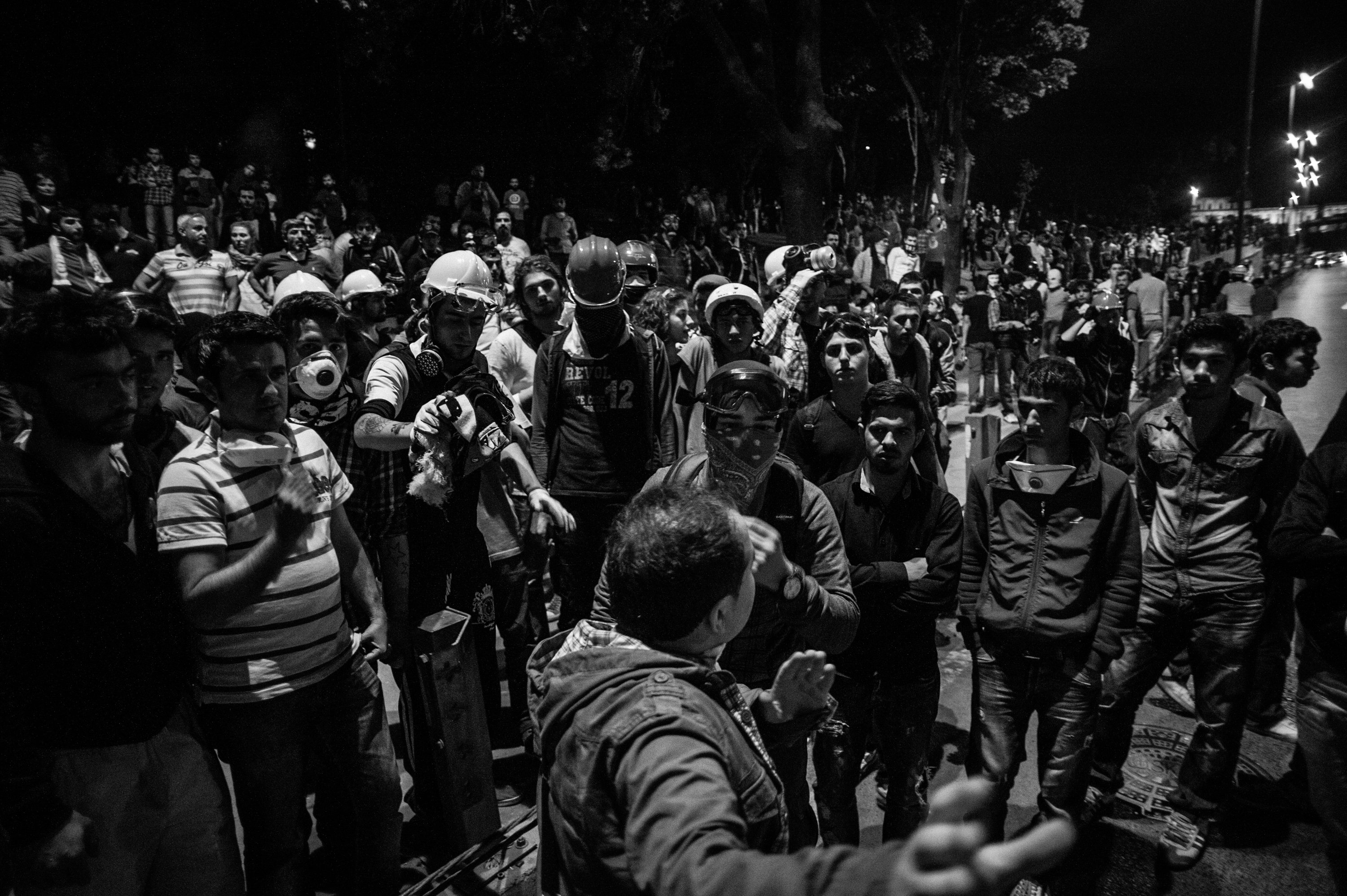 Protestors preparing to fight back tear gas attacks. Events of June 5, 2013.